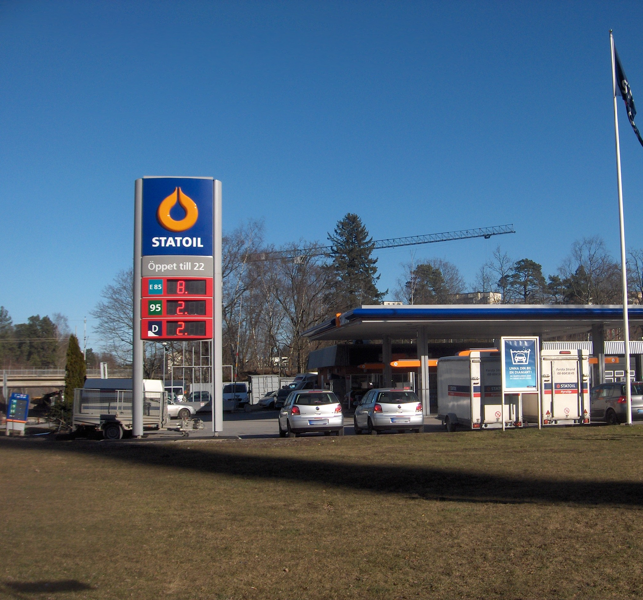 Statoil station in Farsta Strand. Photographed and edited in PhotoFitre by me in winter/spring 2008.